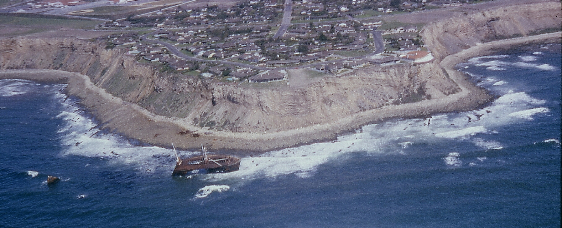 Remains of the wrecked Greek freighter Dominator along the Palos Verdes Peninsula coastline, 1965. Taken with Exakta VX 35mm camera and Ektachrome slide film.